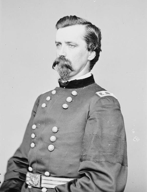 Robert Sanford Foster, Col. 13th Ind Inf From Indiana